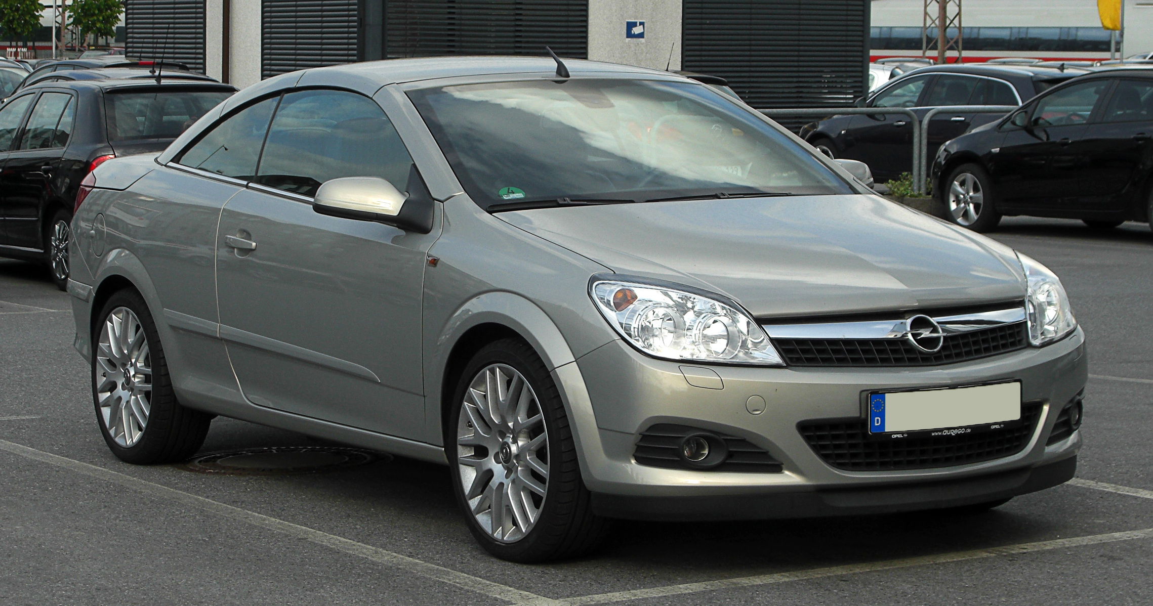 Opel Astra TwinTop (H, Facelift)